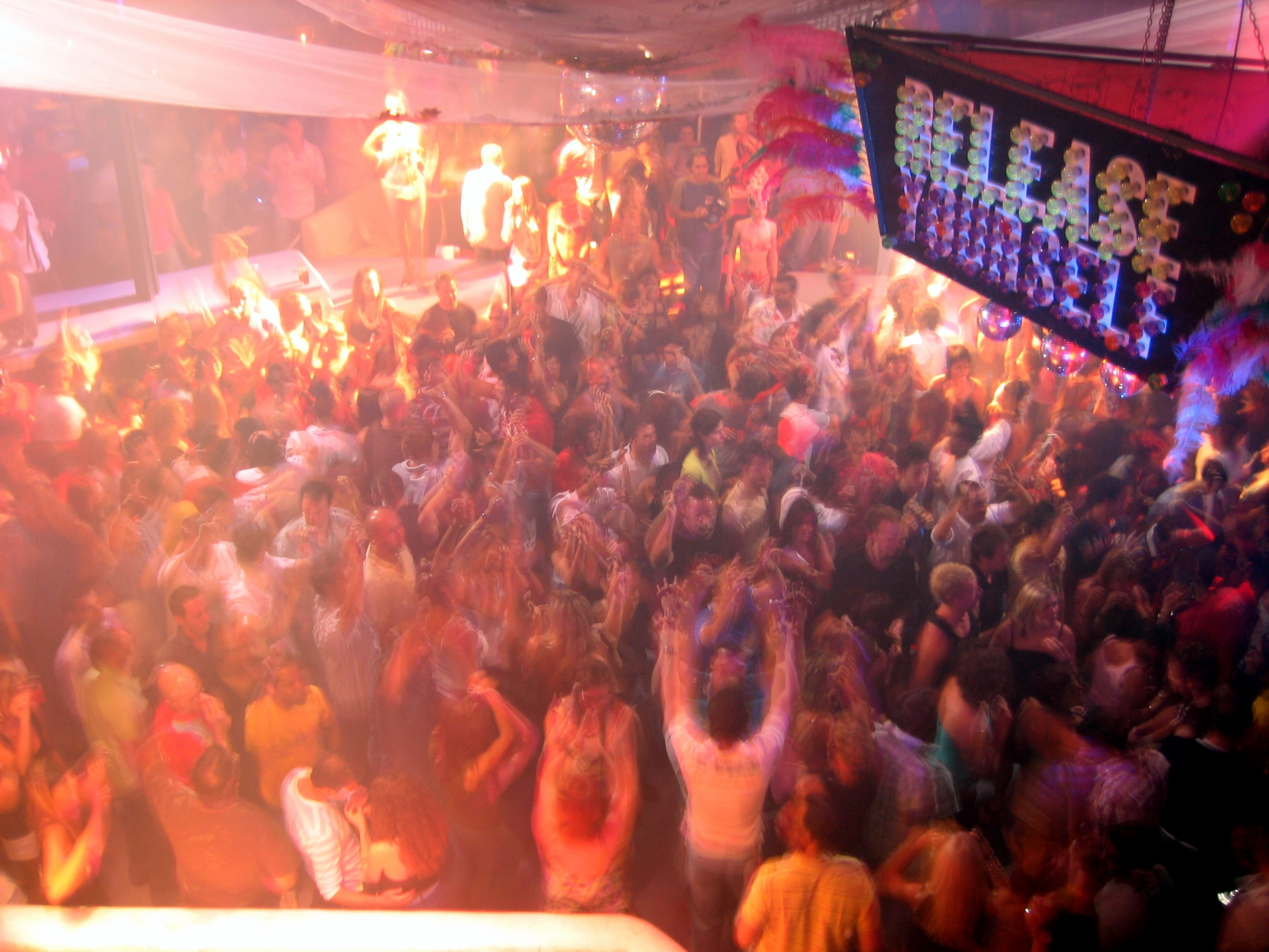 Roger Sanchez' Release Yourself party at Pacha, Ibiza, in July, 2006